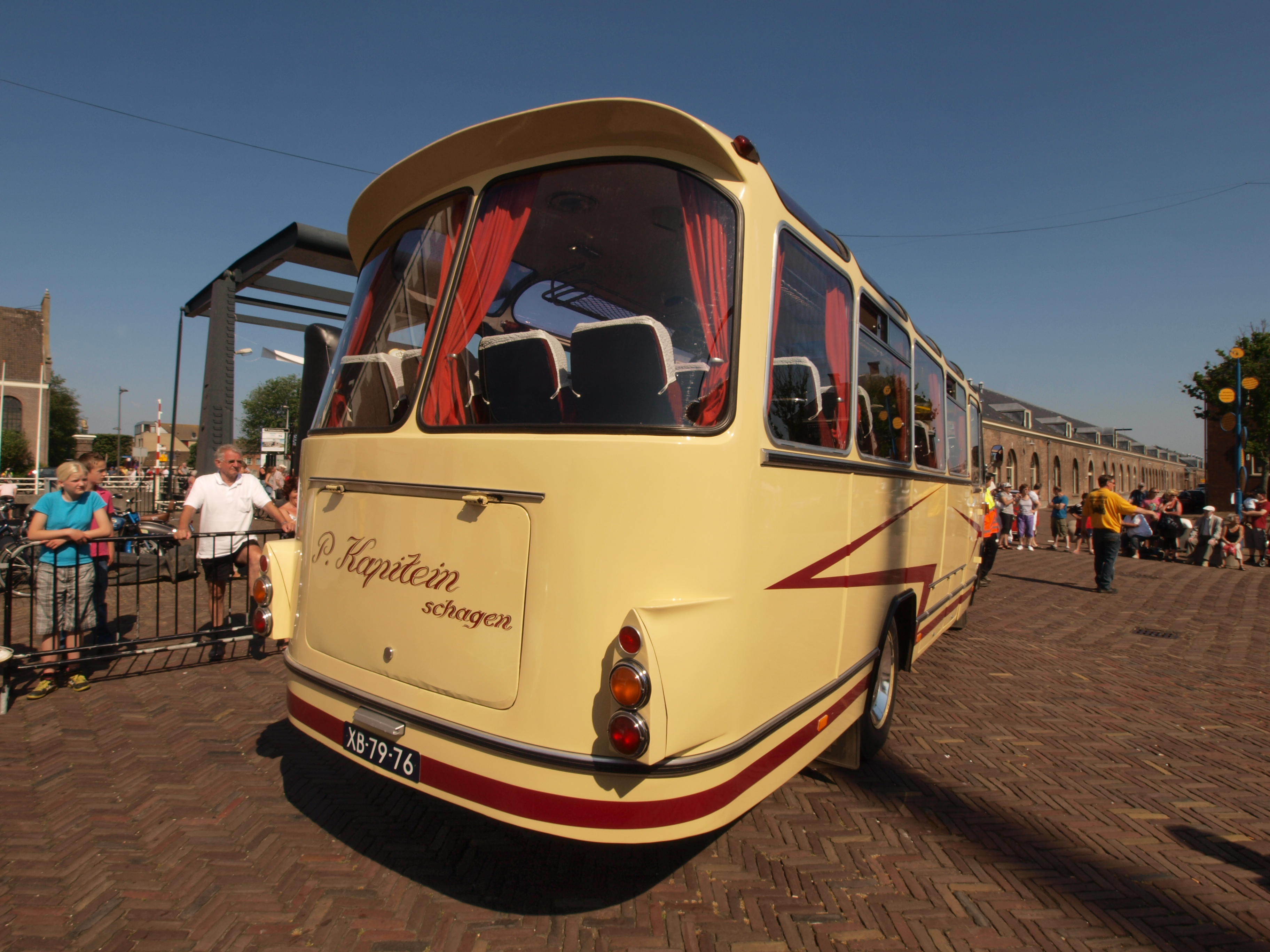 Photographed at Den Helder, The Netherlands. OLYMPUS DIGITAL CAMERA